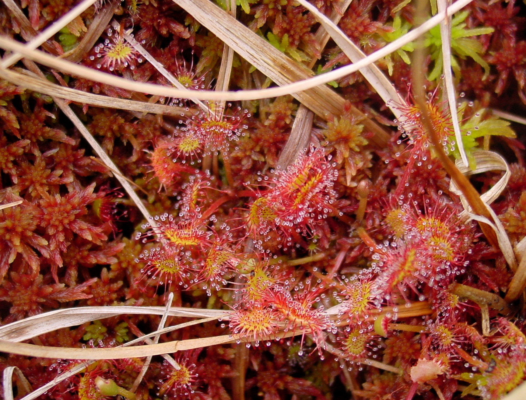 Description: Drosera rotundifolia growing in red sphagnum in Mt. Hood N.P., OR Photo taken by: Noah Elhardt